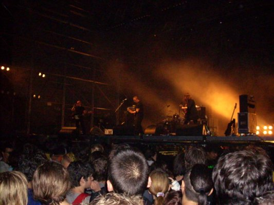 Wire in concert in Turin, Italy.